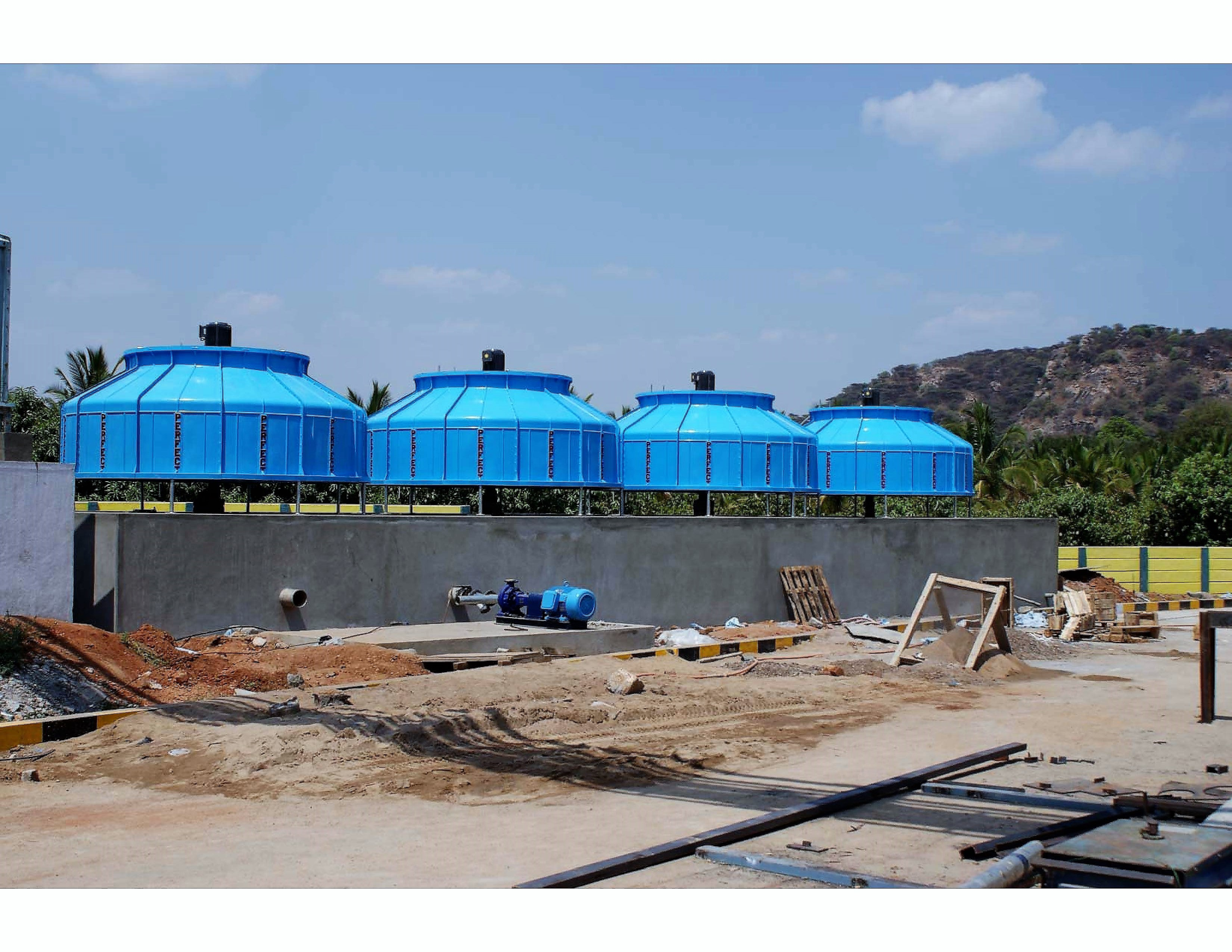 Industrial Counterflow Cooling Towers used in Fruit Processing Industry